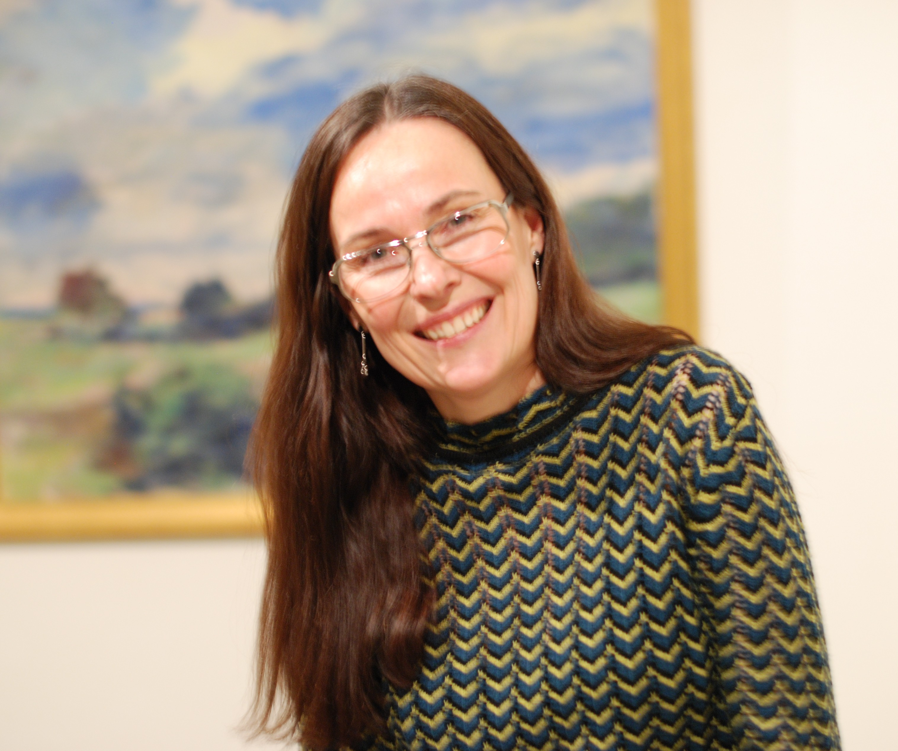 Swedish artist and art critic Susanna Slöör Susanna Slöör, in front of a painting by Hugo Zuhr Hugo Zuhr, at an exhibition at the Swedish Academy of Arts, curated by her.